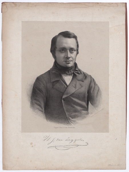 Portrait of Dutch poet Willem Josephus van Zeggelen (1811-1879)